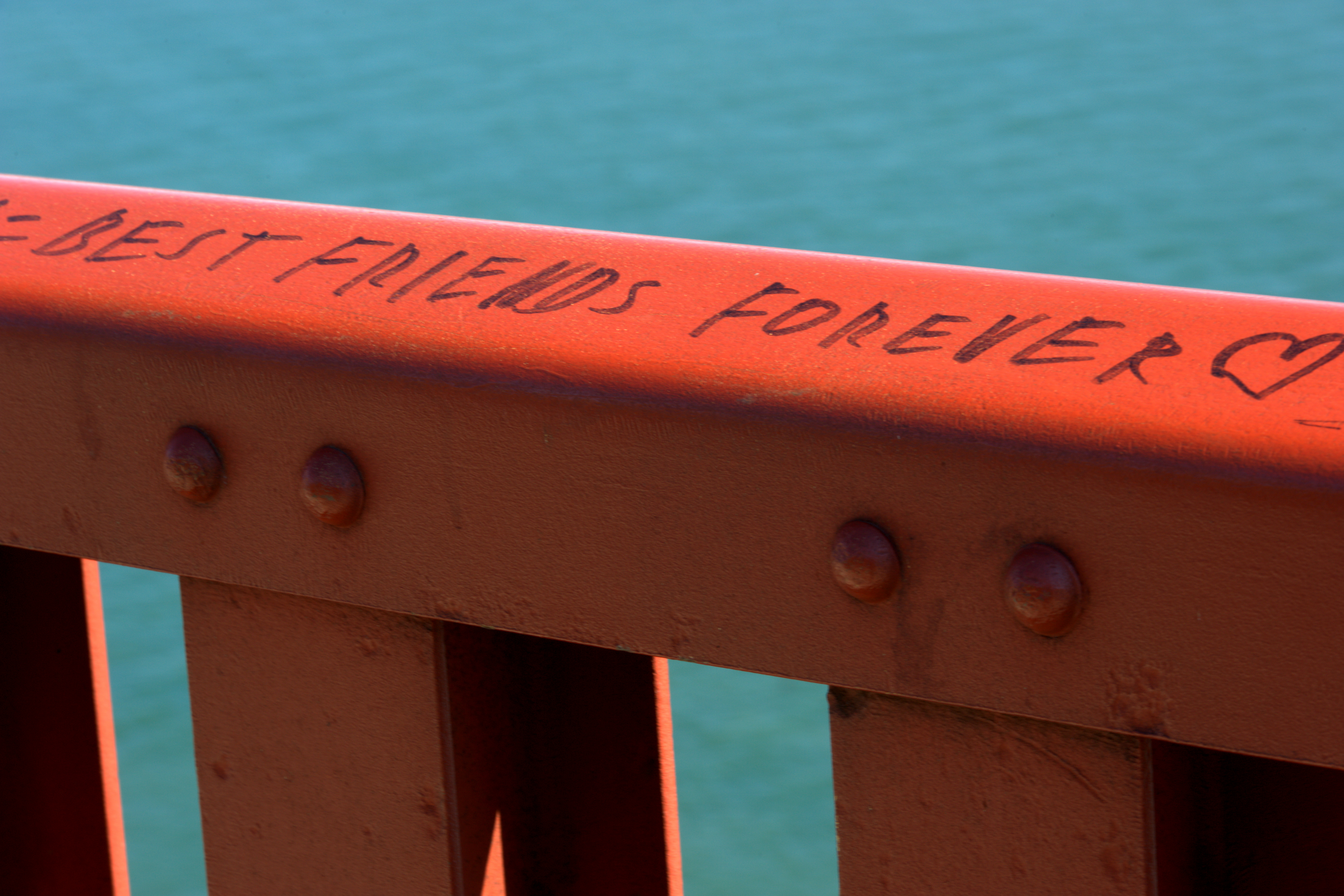 Golden Gate Bridge railing along the east sidewalk, with a permanent marker inscription reading "Best friends forever ♥".. In San Francisco, California.